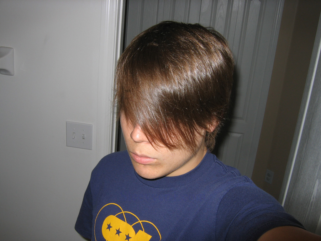 Author: Myself (User:Steevven1)* 2007-04-12 08:47 Pinotgris 1024×768×8 (250572 bytes) Reverted to earlier revision 2007-04-12 08:45 Pinotgris 936×1200×8 (238850 bytes) Reverted to earlier revision URL